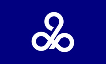 Flag of Miho Ibaraki